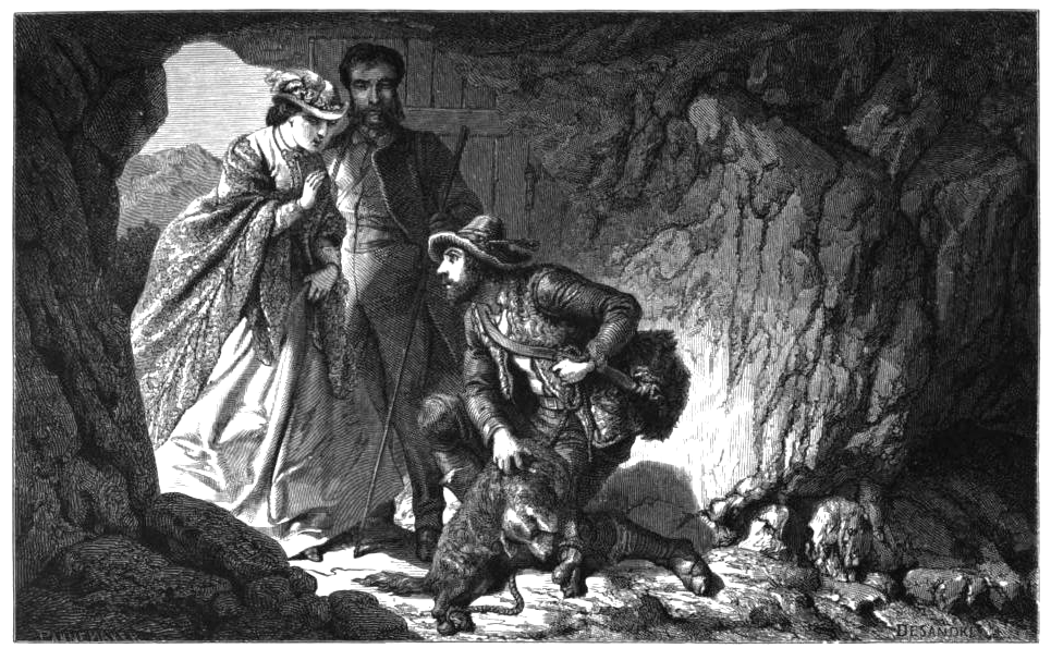 The Cave of Dogs near Puzzuoli, Italy. A guide shows a suffocated dog to a man and woman tourist.